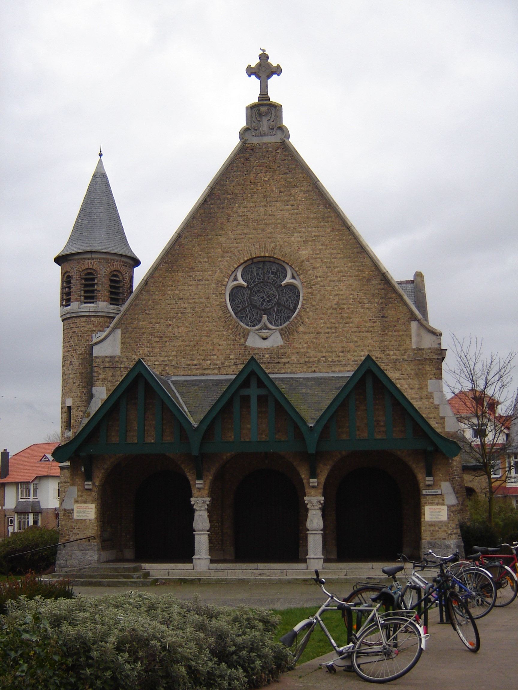 Church of Saint Theresia in Westende. Westende, Middelkerke, West Flanders, Belgium